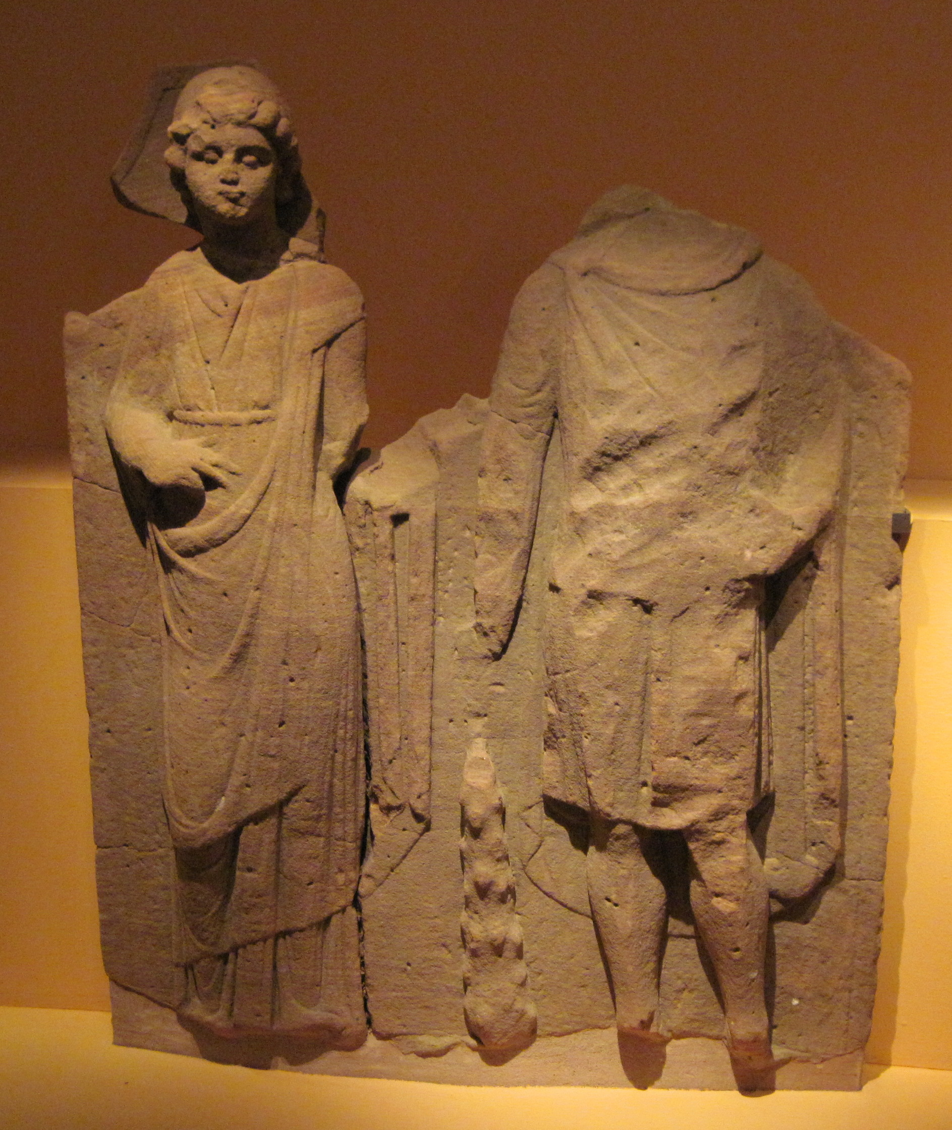 Bas-relief of the Gaulish goddess Ancamna and Mars Smertrius (the latter holds the club of Hercules in his hand). Provenance Freckenfeld, Kreis Germersheim, in Germany; current location, the Historic Museum of the Palatinate in Spire. Third century CE.